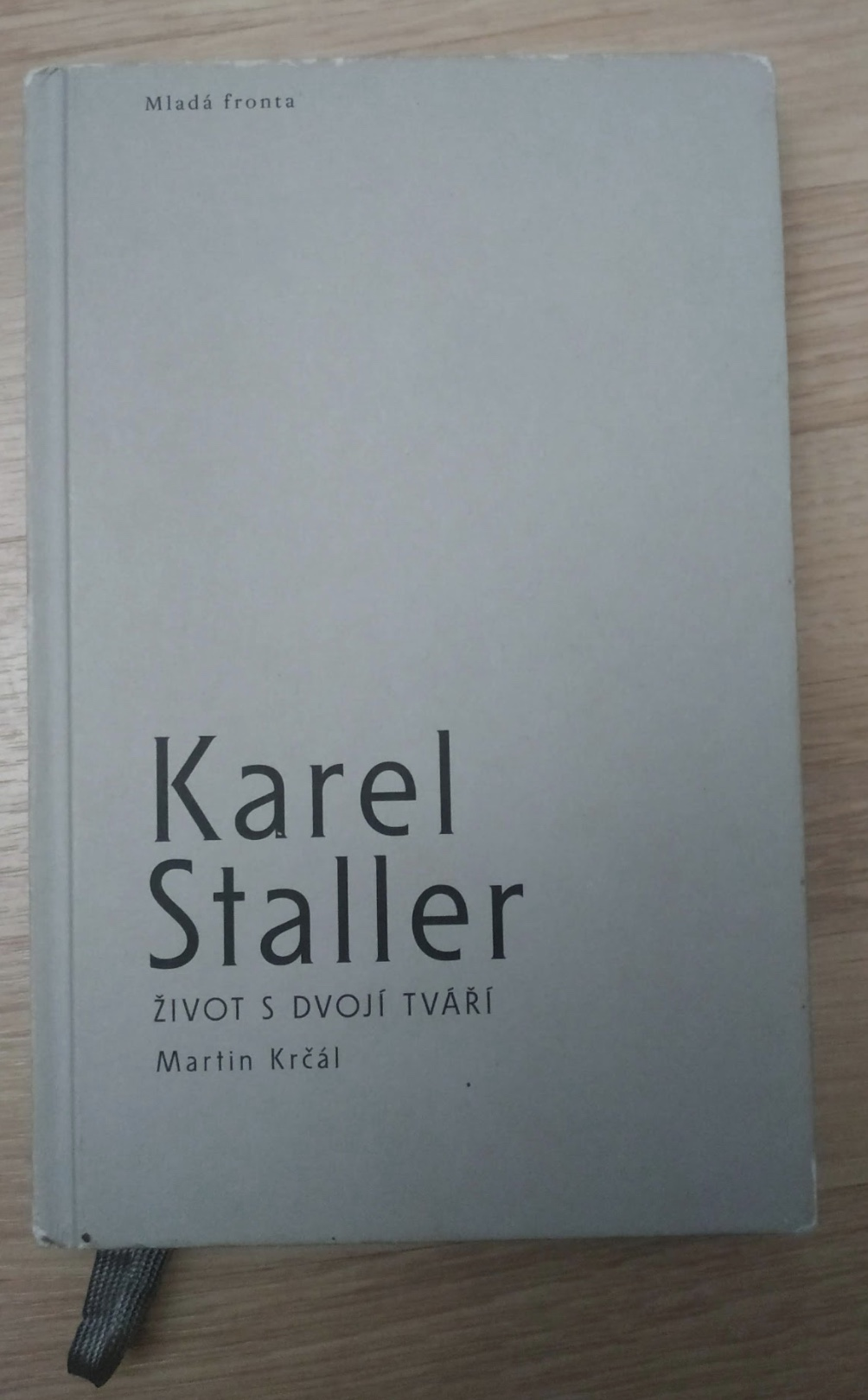 kniha